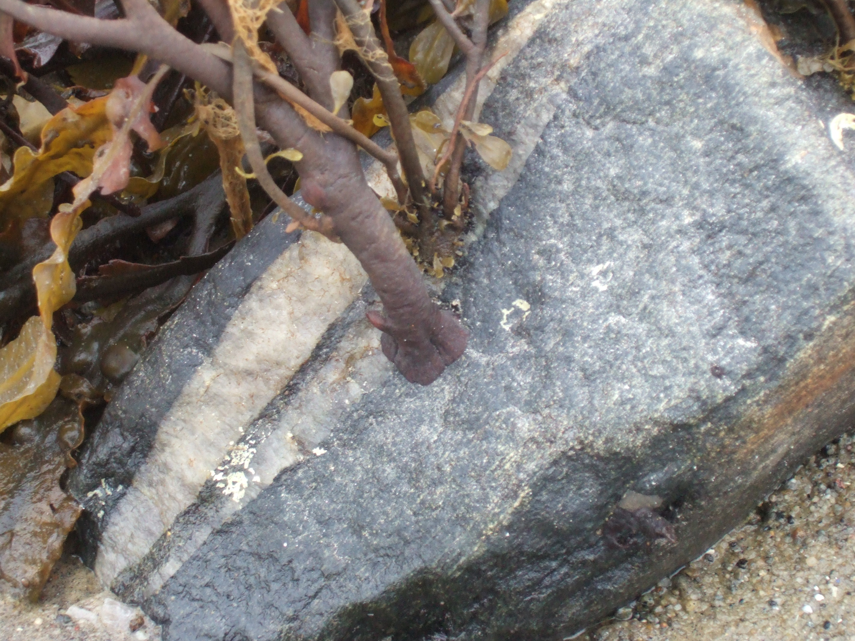 Close up of a holdfast of a seaweed (Alaria?). Photo taken near Forøy, Norway.